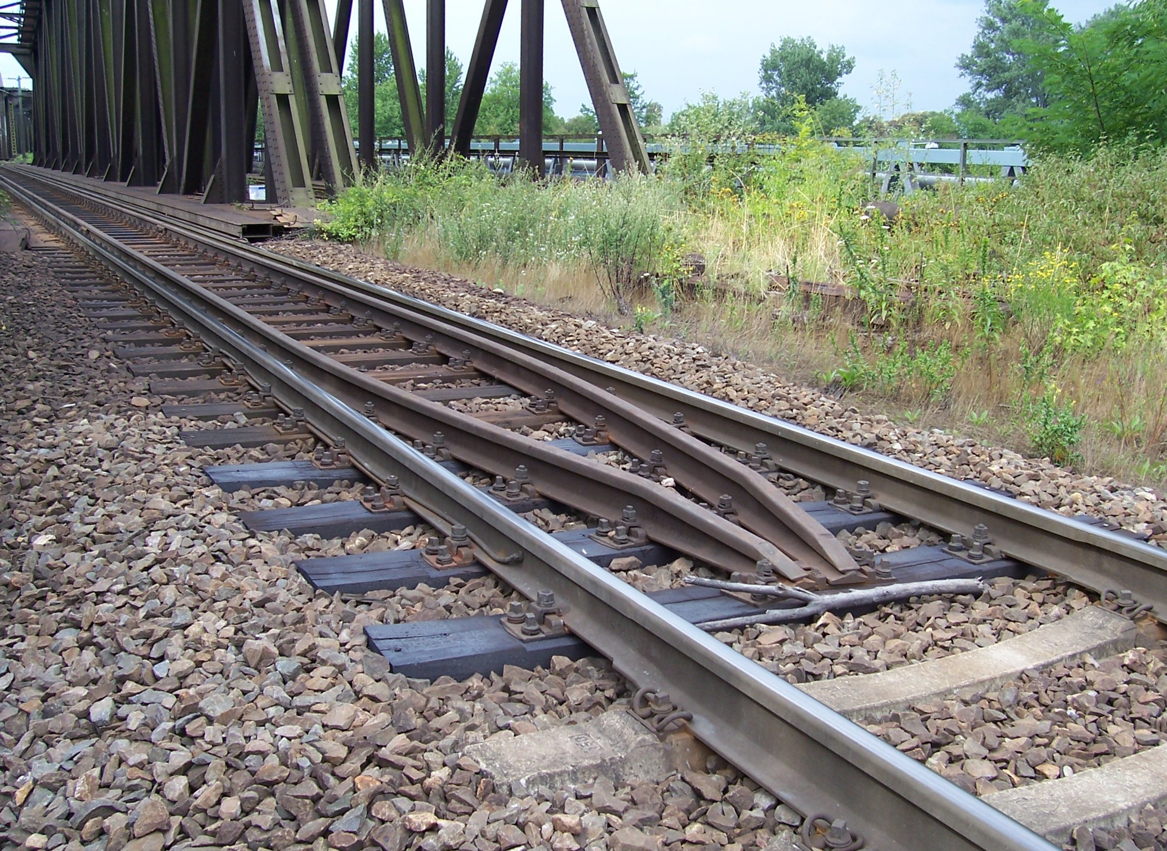 Special track on a bridge to minimize risk in case of derailing